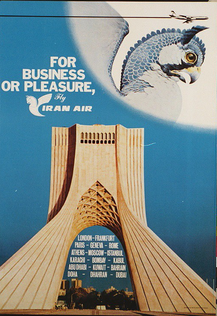 Poster from the Don Thomas Collection. Mr. Thomas was a collector of aircraft memorabilia who donated several posters to the San Diego Air and Space Museum. Repository: San Diego Air and Space Museum Archive